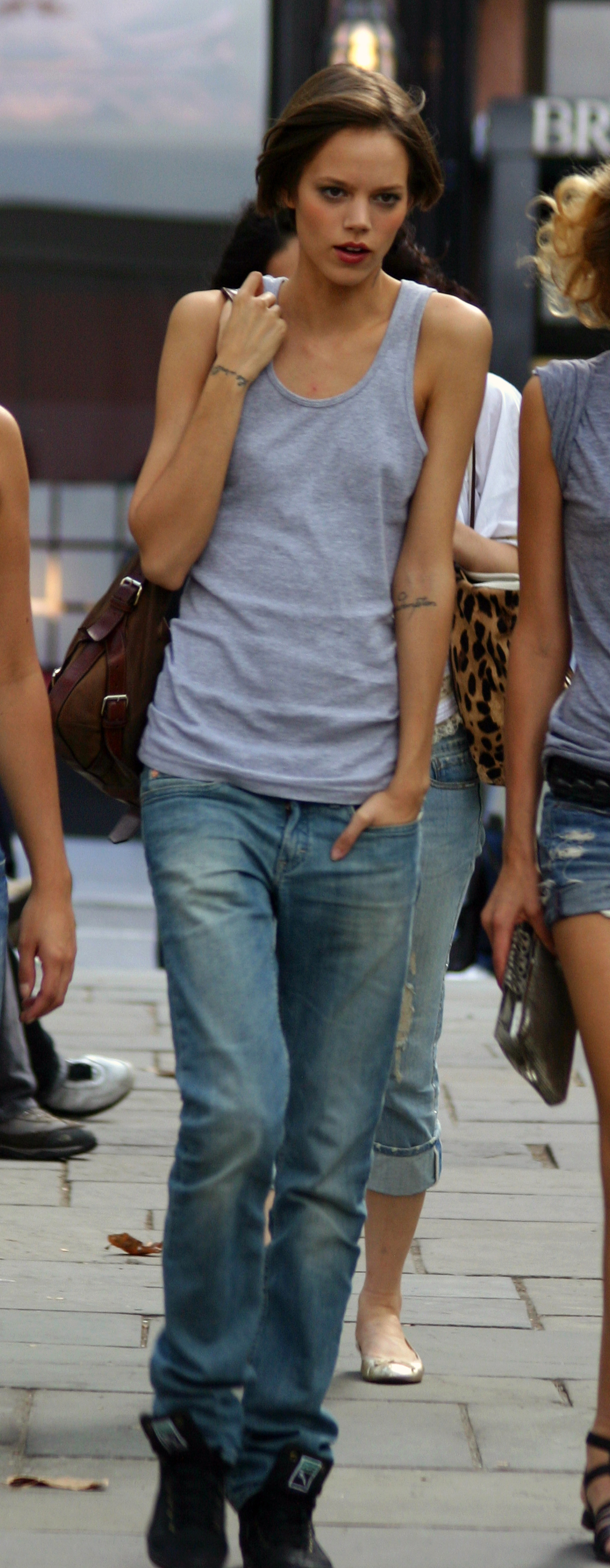 Danish supermodel Freja Beha Erichsen in Bryant Park, New York City during Mercedes-Benz Fashion Week, September 2007